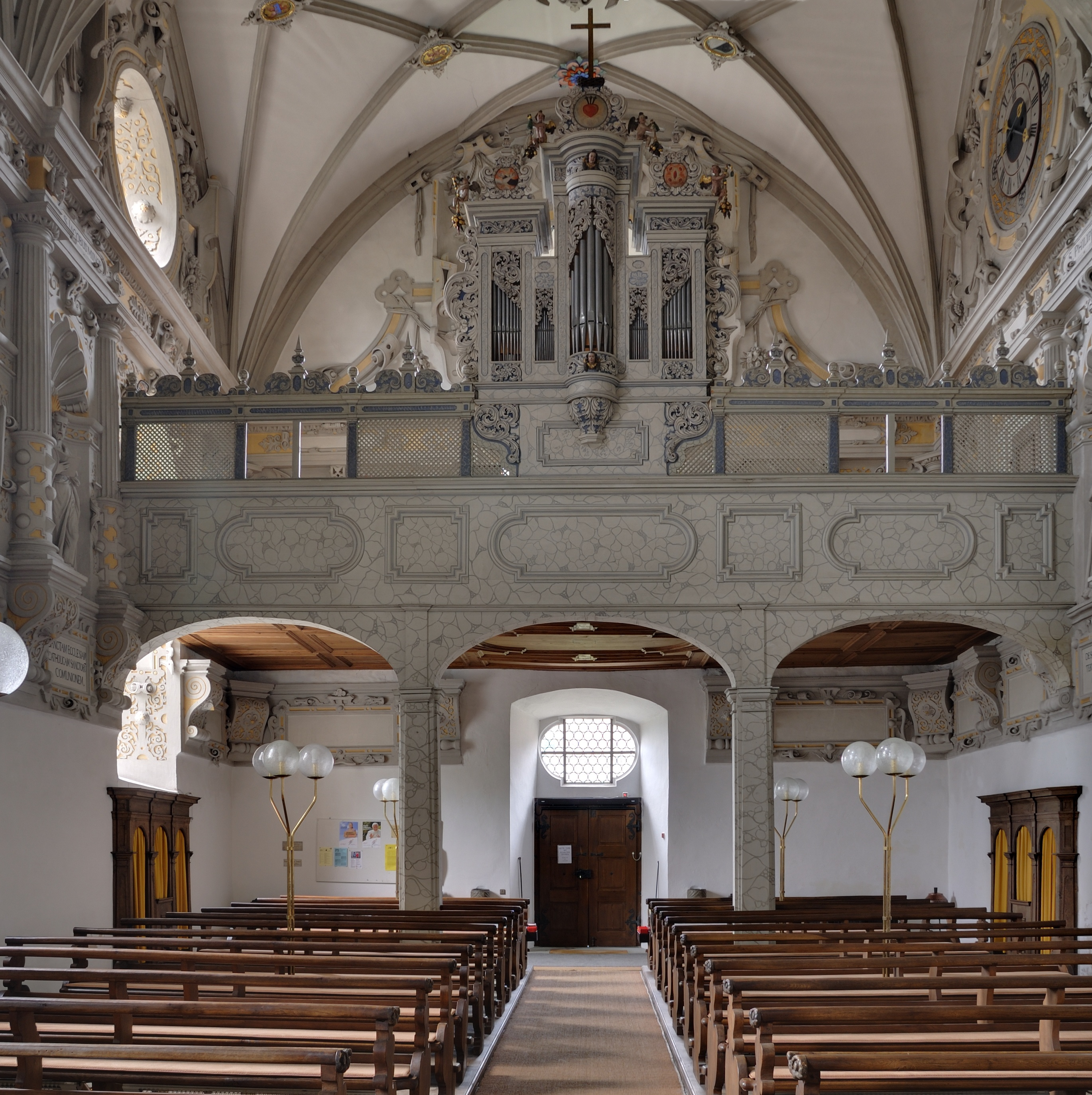 Hechingen: Minster Saint Luzen